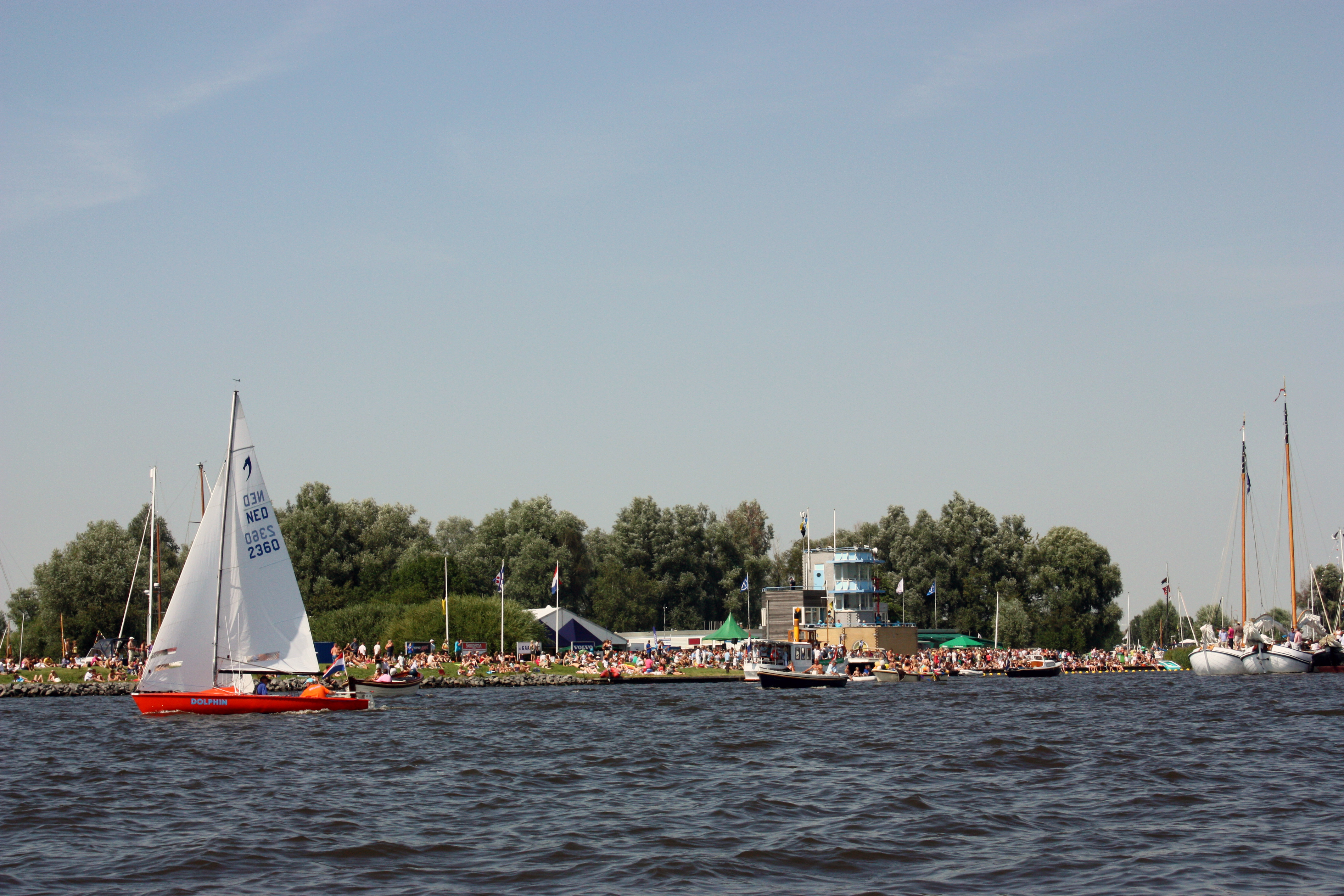 Kolmeersland, Sneekweek 2009.